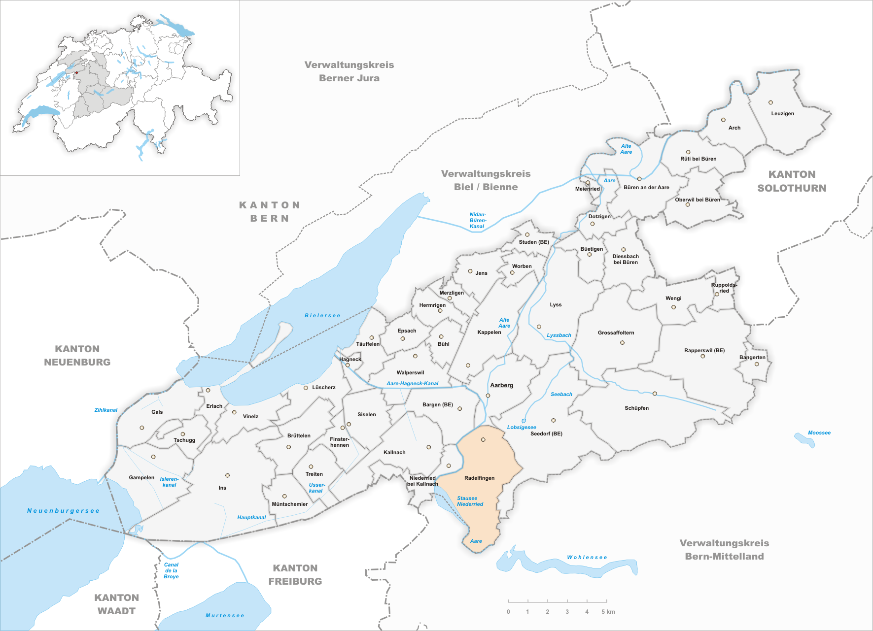 Municipality Radelfingen